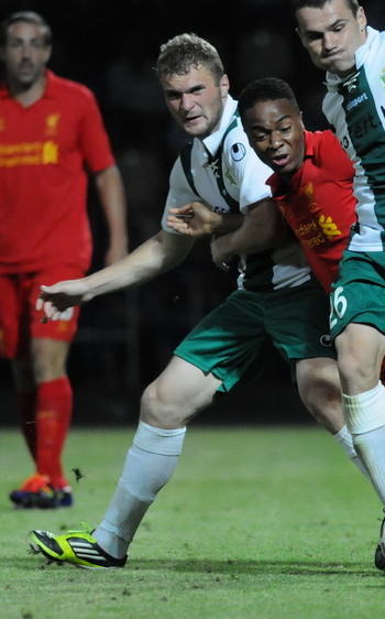 Belarusian football player Syarhey Matsveychyk during 3rd round UEFA Europa League qualifier FC Gomel - Liverpool F.C.